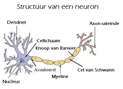 Dutch translation of Image:Neuron.jpg